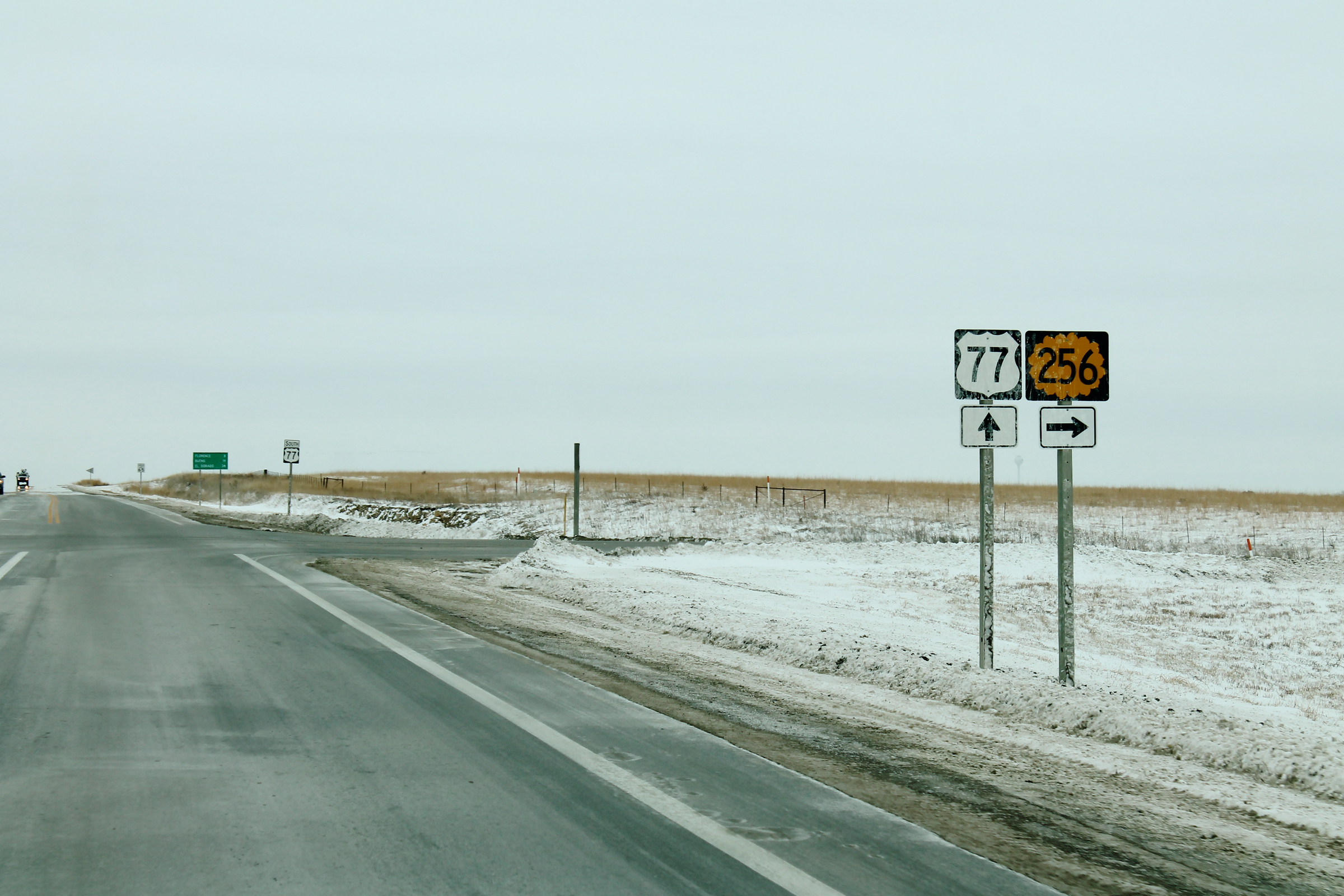 US77sRoad-KS256sign